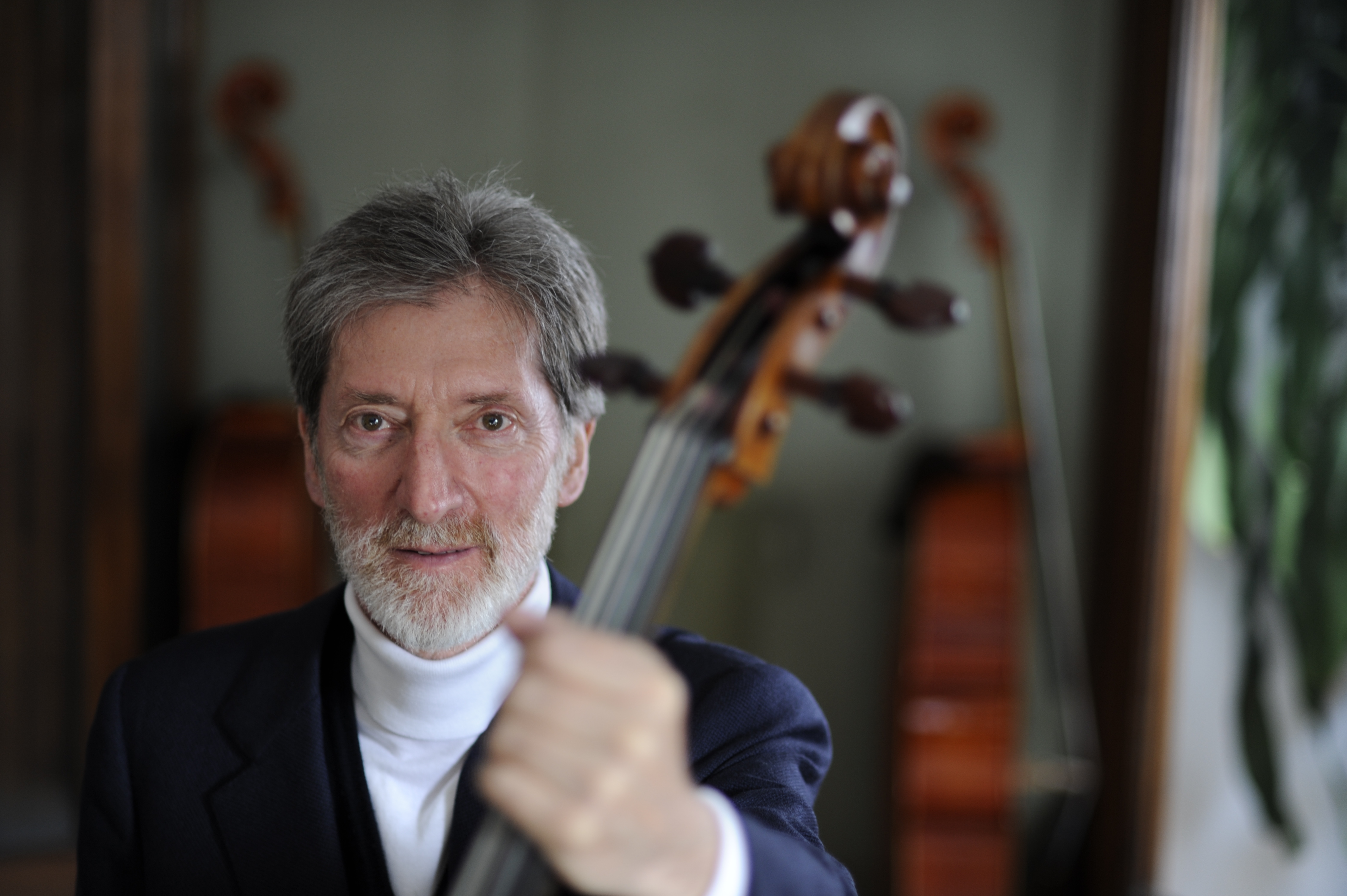 Portrait of Rocco Filippini